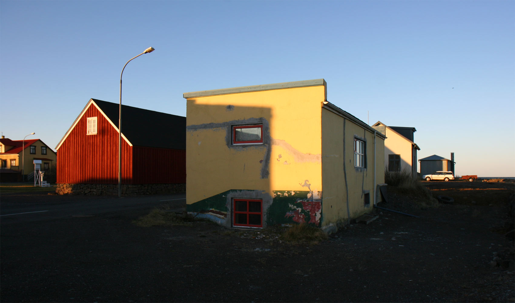 Houses in Blönduós, November 21 12:55 Iceland, November 2007 Photo by me user debivort (or friend, with permission given to upload and license freely).